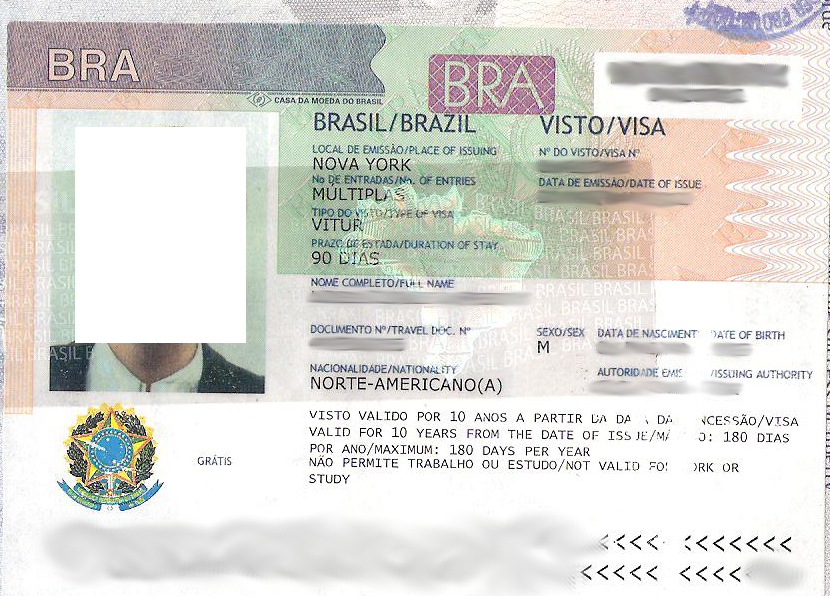 Brazil tourist visa in a US passport